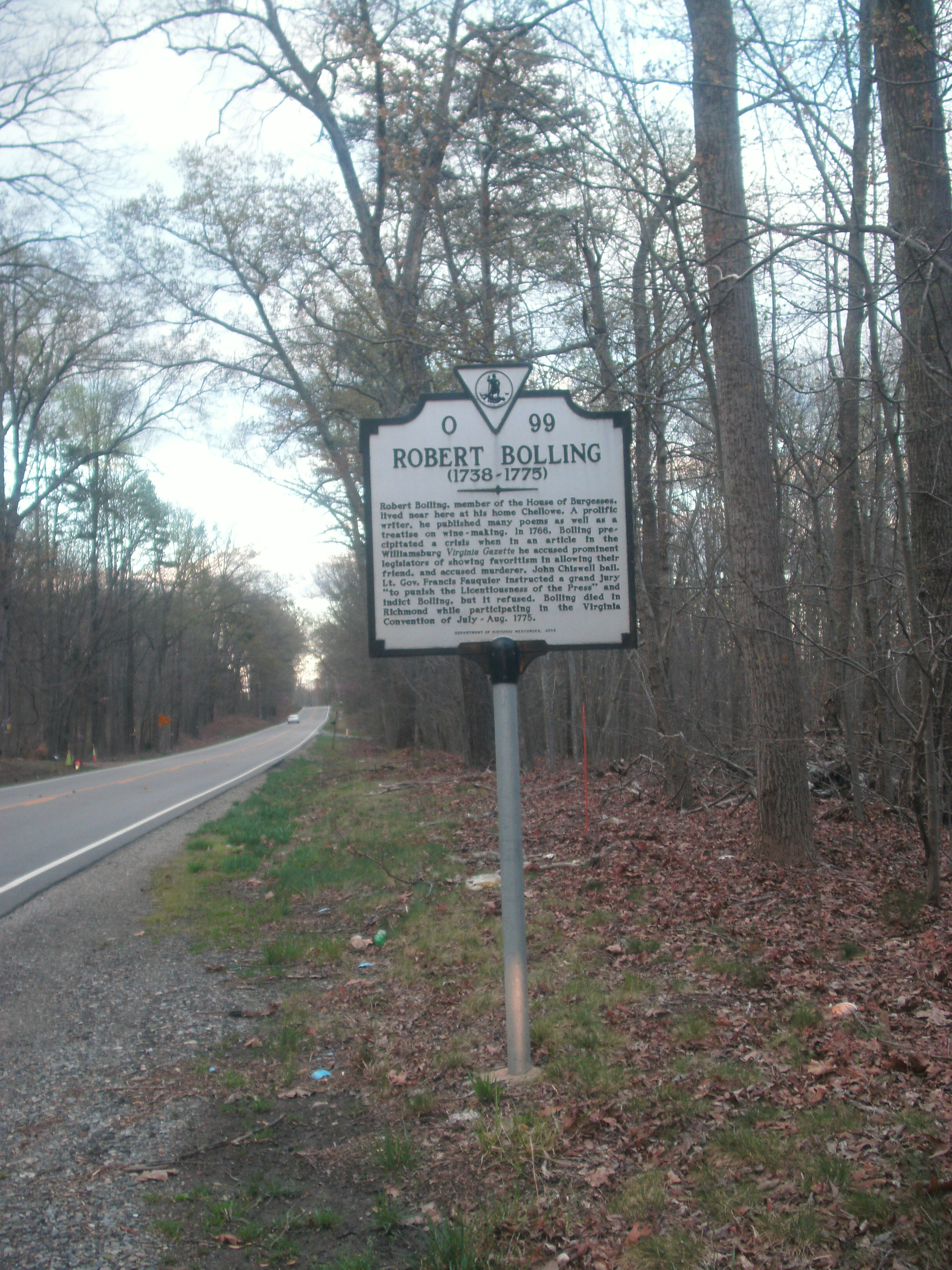 Historic marker designating the site of Chellowe in Buckingham County, Virginia